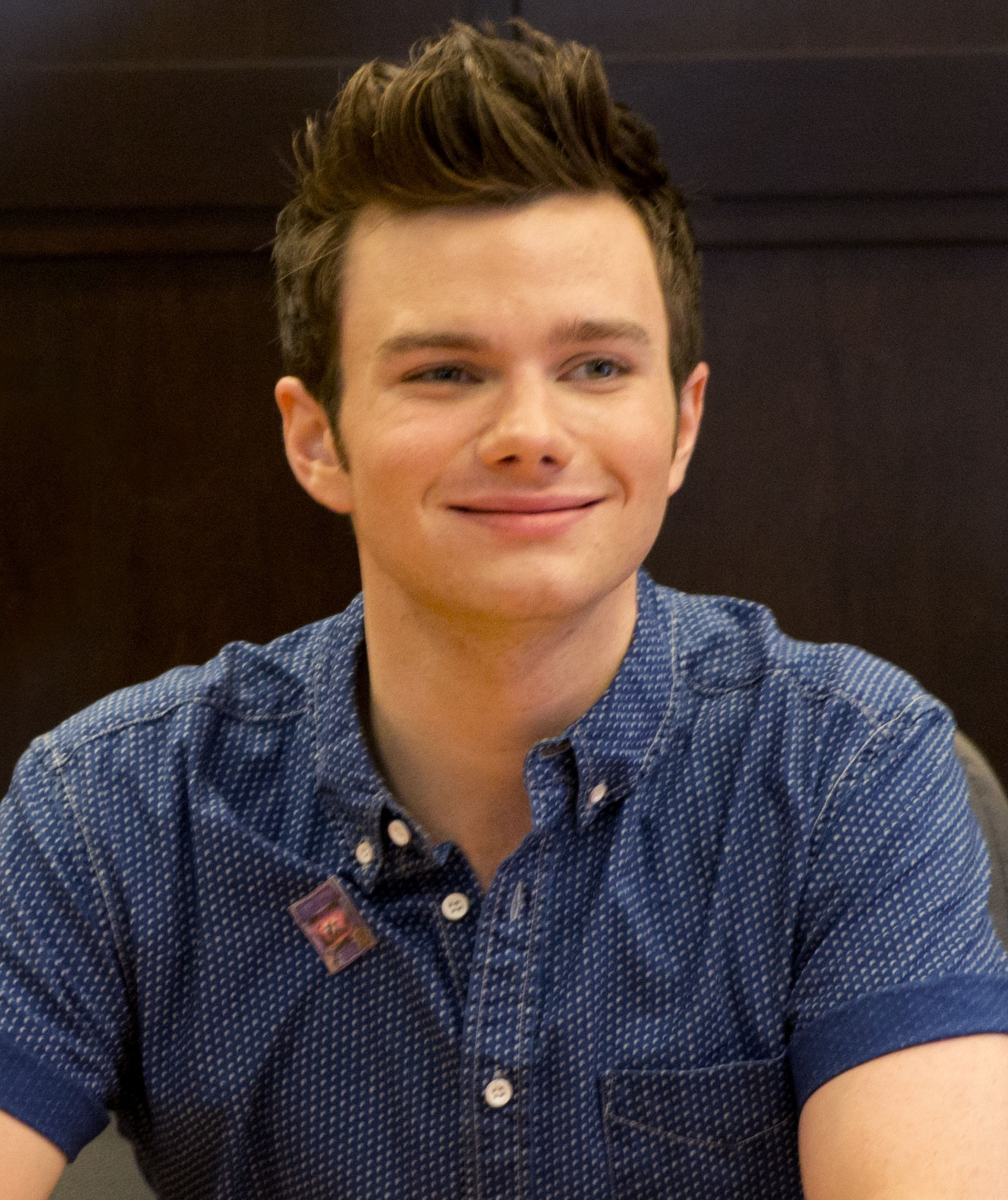 The Land of Stories: The Enchantress Returns Book Signing The Grove Los Angeles, CA August 10th, 2013